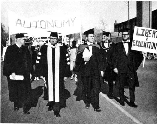 Protest.